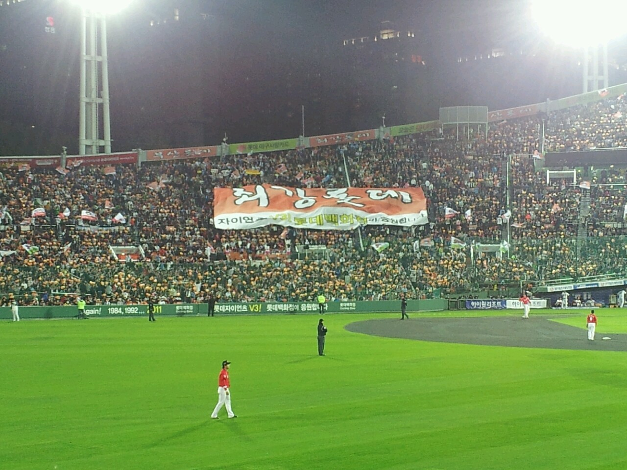 Sajik Baseball Stadium, the home of the Lotte Giants, in Busan, South Korea